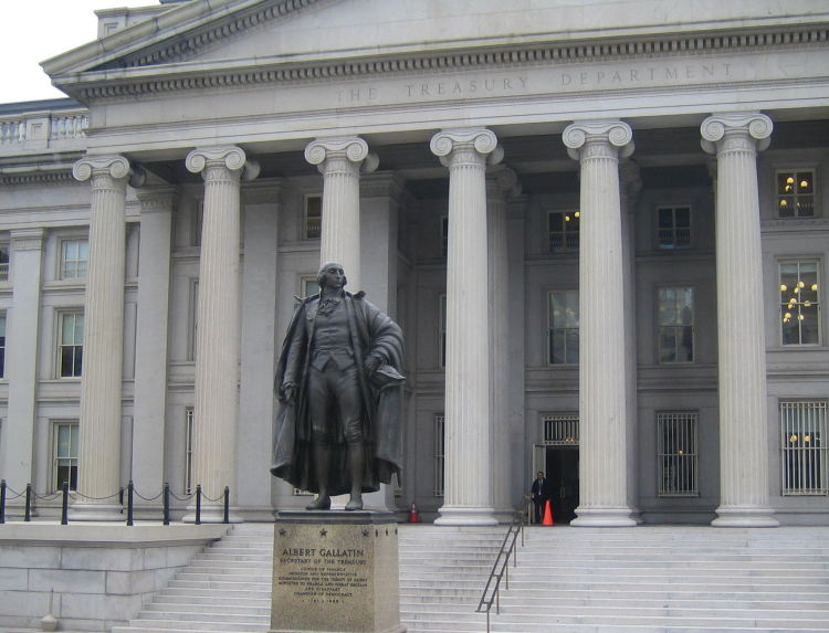 Statue of Albert Gallatin in front of the north side of the U.S. Treasury Building in Washington, D.C.